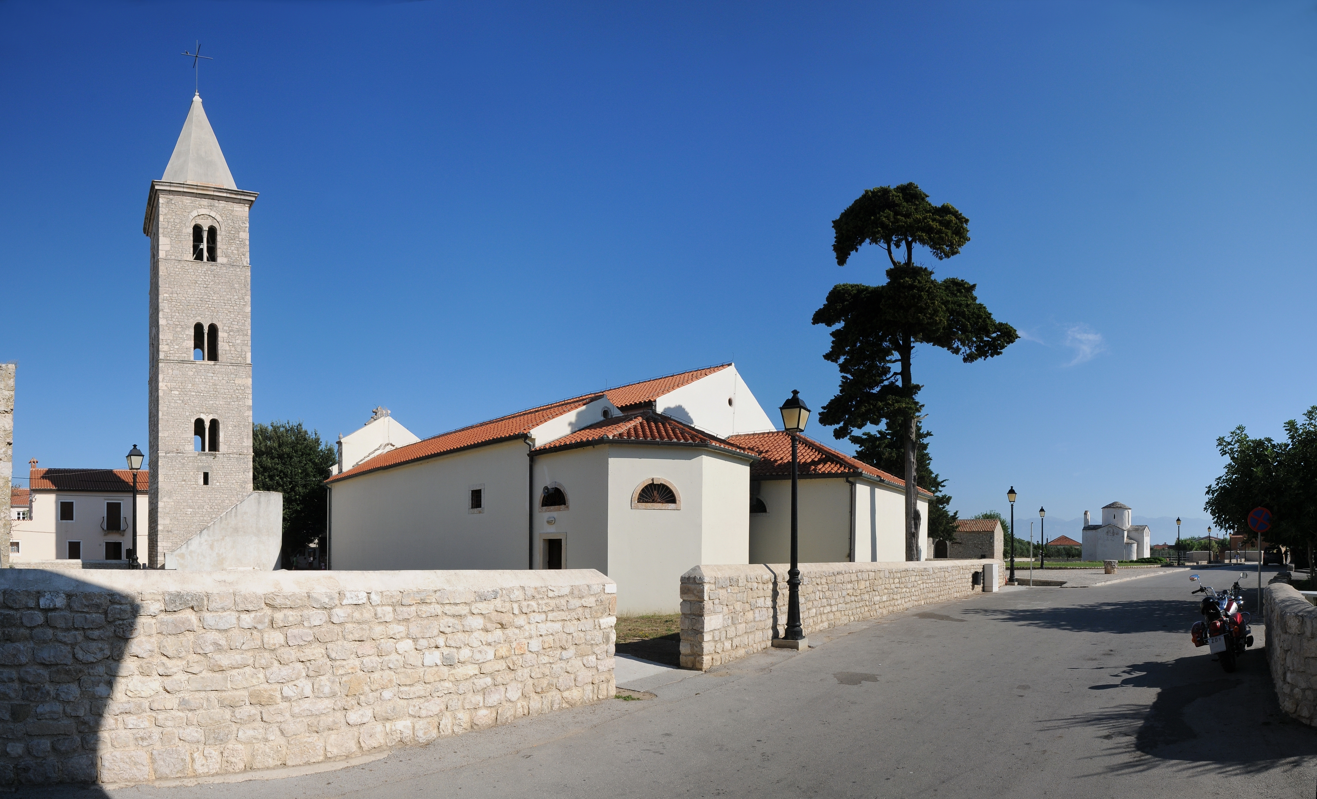 Nin, Croatia: church of St. Anselm with bell tower (12th century). In the background the church of the Holy Cross.